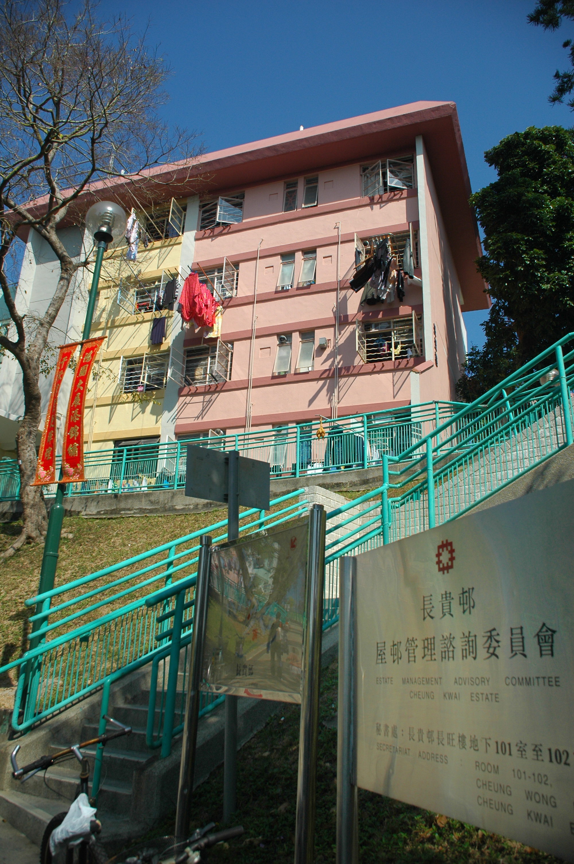 Cheung King House, Cheung Kwai Estate, Cheung Chau, Hong Kong.